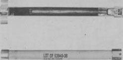 The M114 4-lb biological bomb was the first biological weapon standardized by the U.S. military.